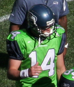 Seattle Seahawks players, 2009